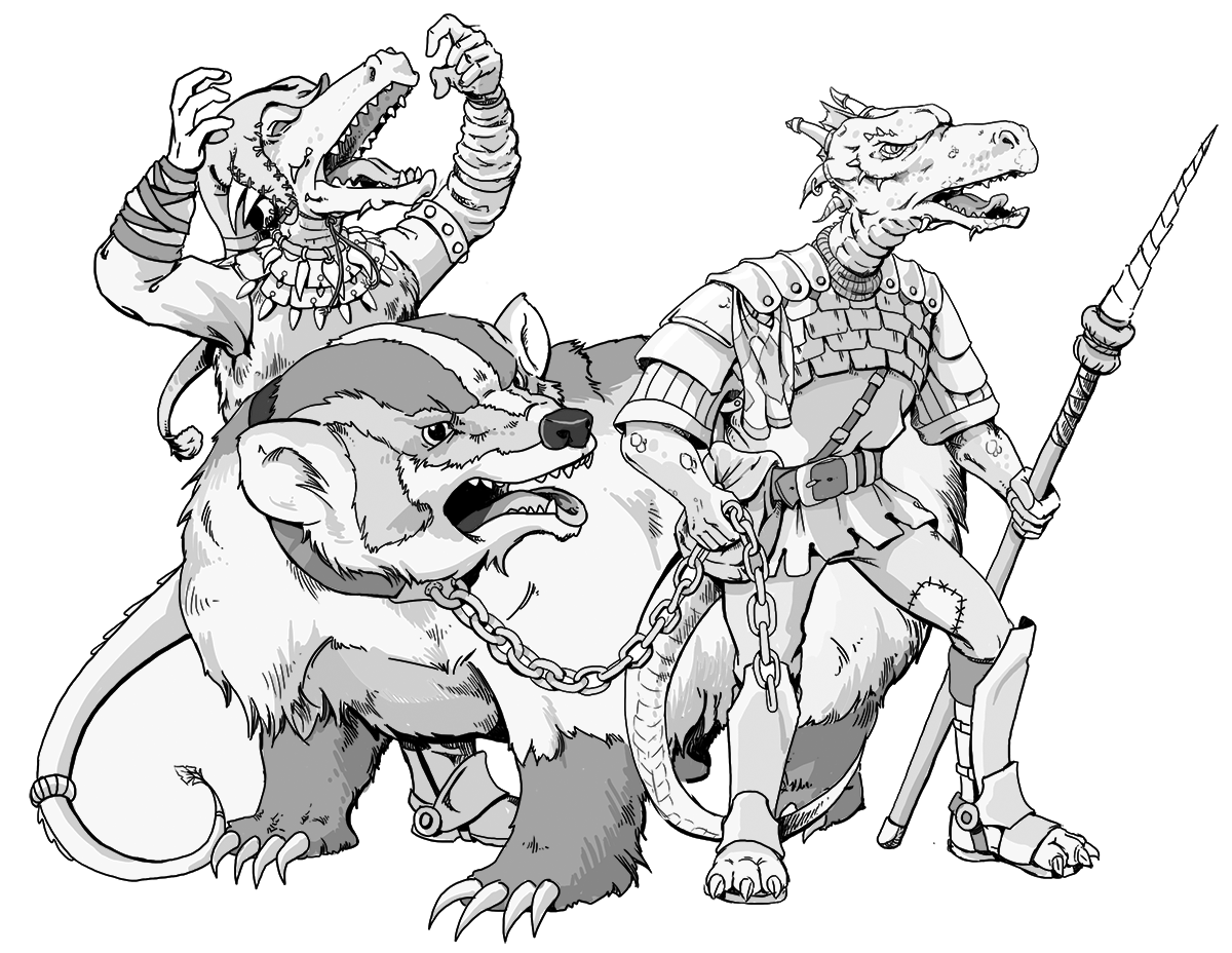 Kobolds are a fictional species featured in the Dungeons & Dragons roleplaying game. Aggressive, xenophobic, yet industrious small humanoid creatures, kobolds are noted for their skill at building traps and preparing ambushes.